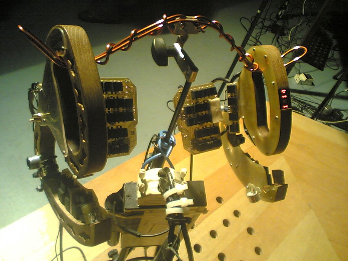 The Hands, electronic instrument designed by Michel Waisvisz. Photo taken at STEIM in 2006. For more info